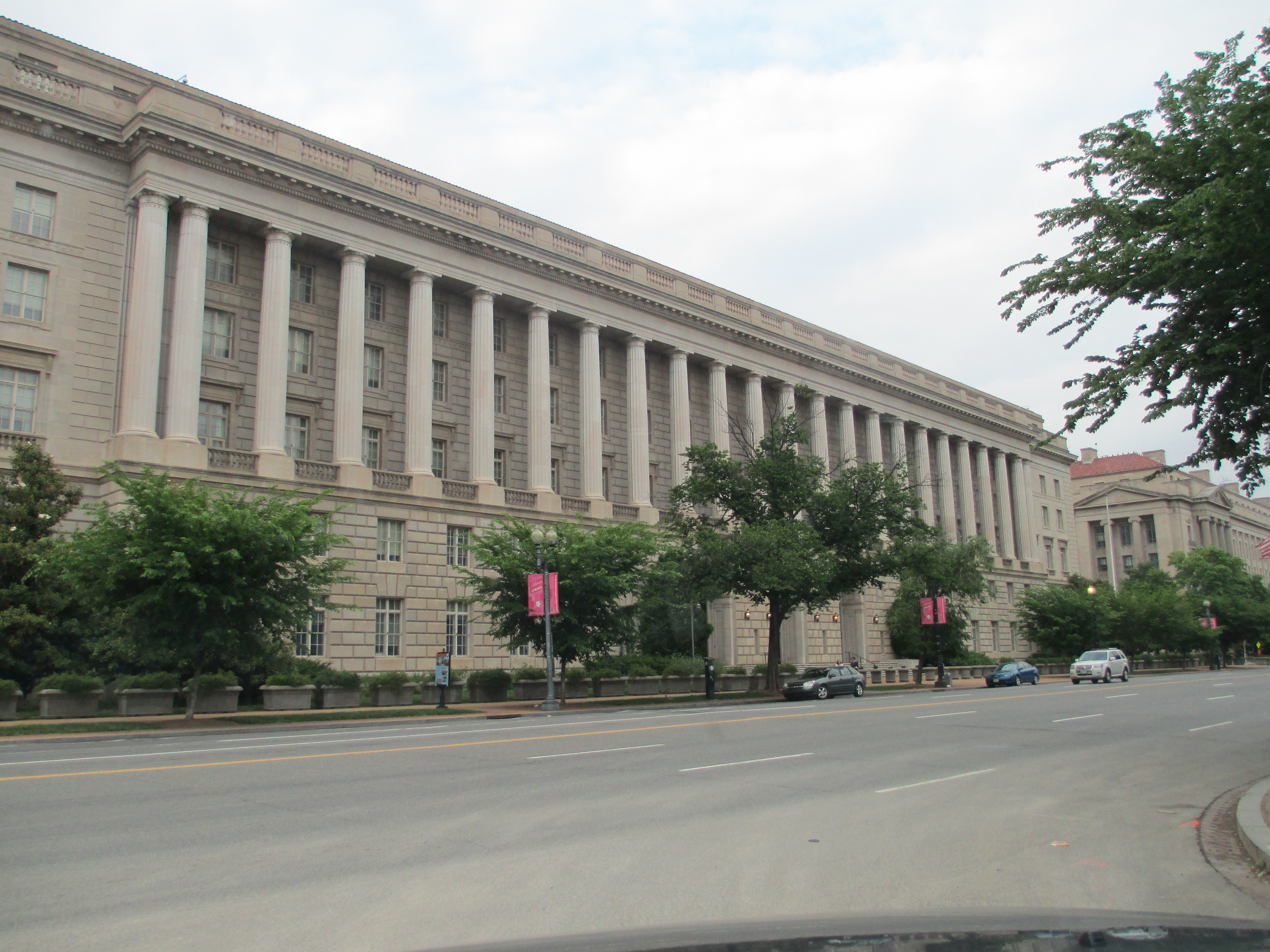 IRS Building in Washington D.C.